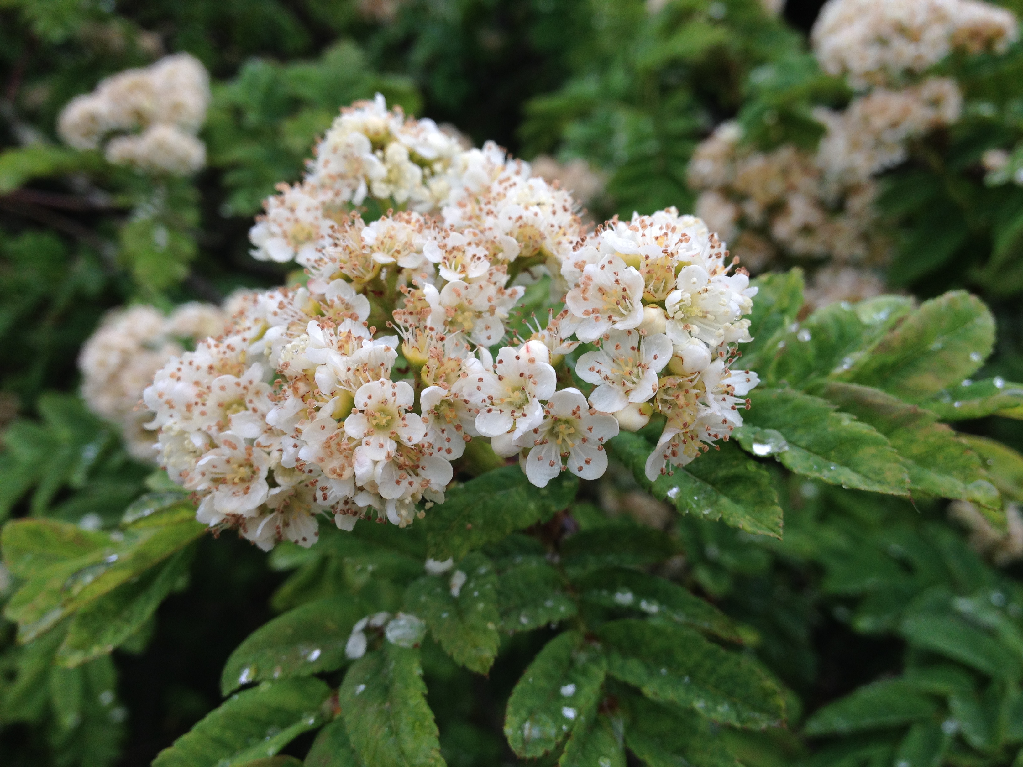 Sorbus maderensis flowers at Westonbirt Arboretum in Gloucestershire, England.